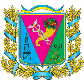 Coats of arms of Krasnokutskyj raions